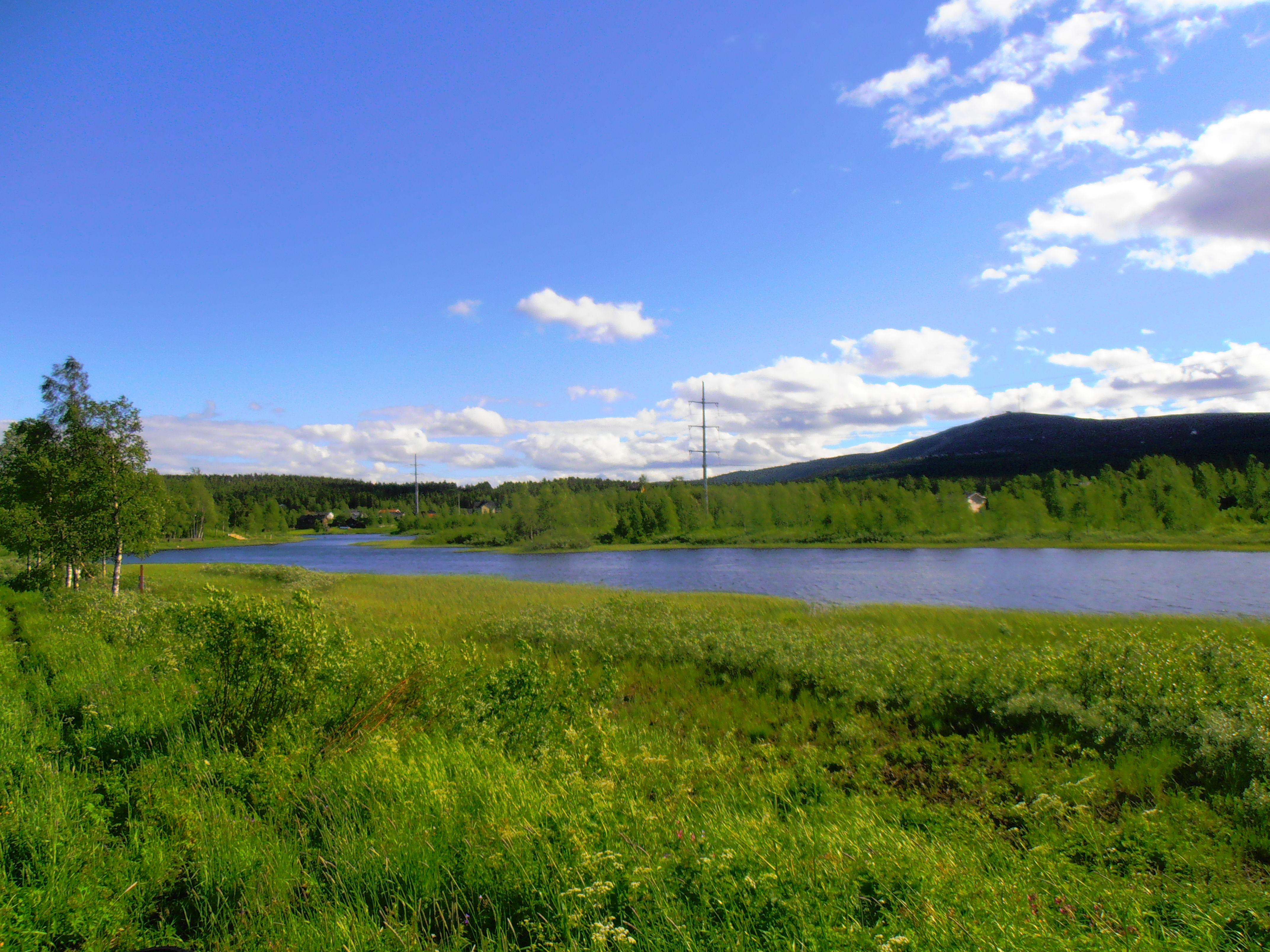 The Vassara river, Gällivare